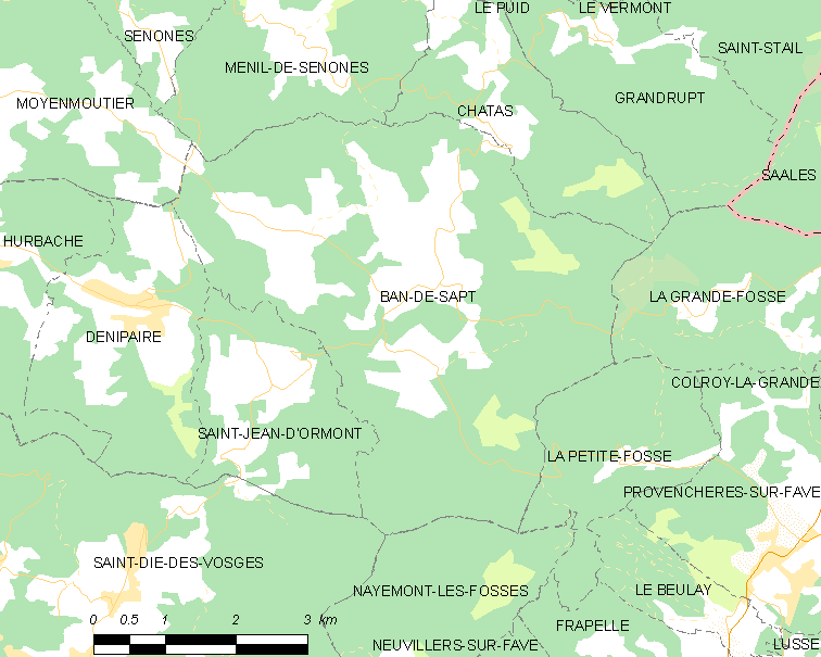 Map of French municipality Ban-de-Sapt